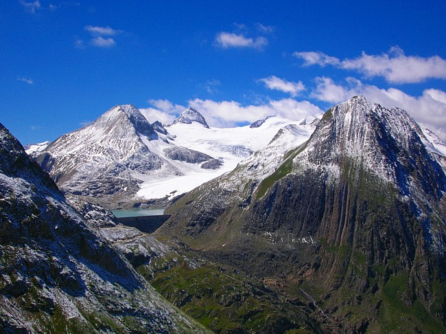 Nufenenpass (Passo Novena) Picture taken by user;Idéfix, august 2005 earlier uoloaded on Dutch Wikipedia as